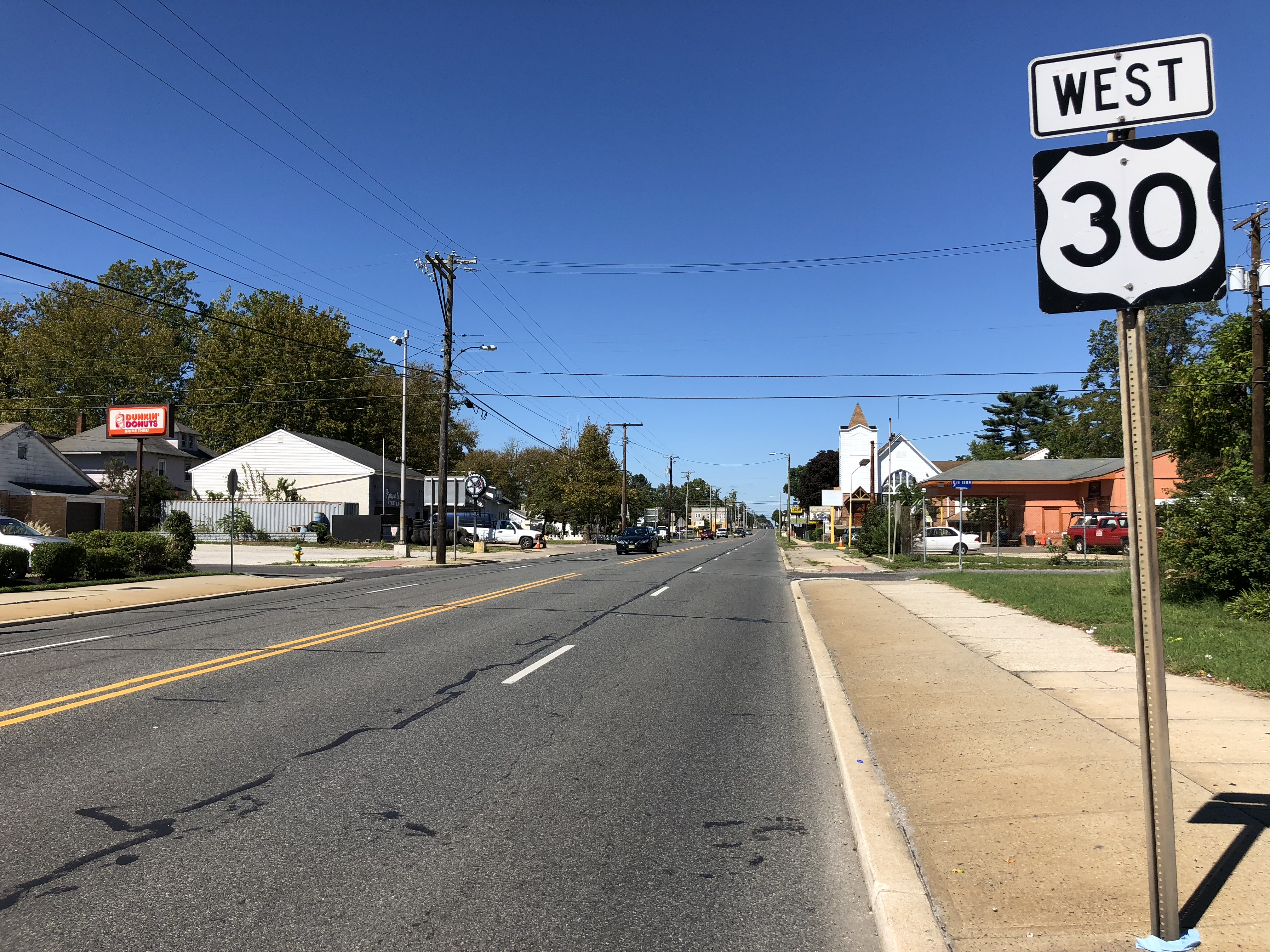 View west along U.S. Route 30 (White Horse Pike) just west of New Jersey State Route 50 and Atlantic County Route 563 (Philadelphia Avenue) in Egg Harbor City, Atlantic County, New Jersey